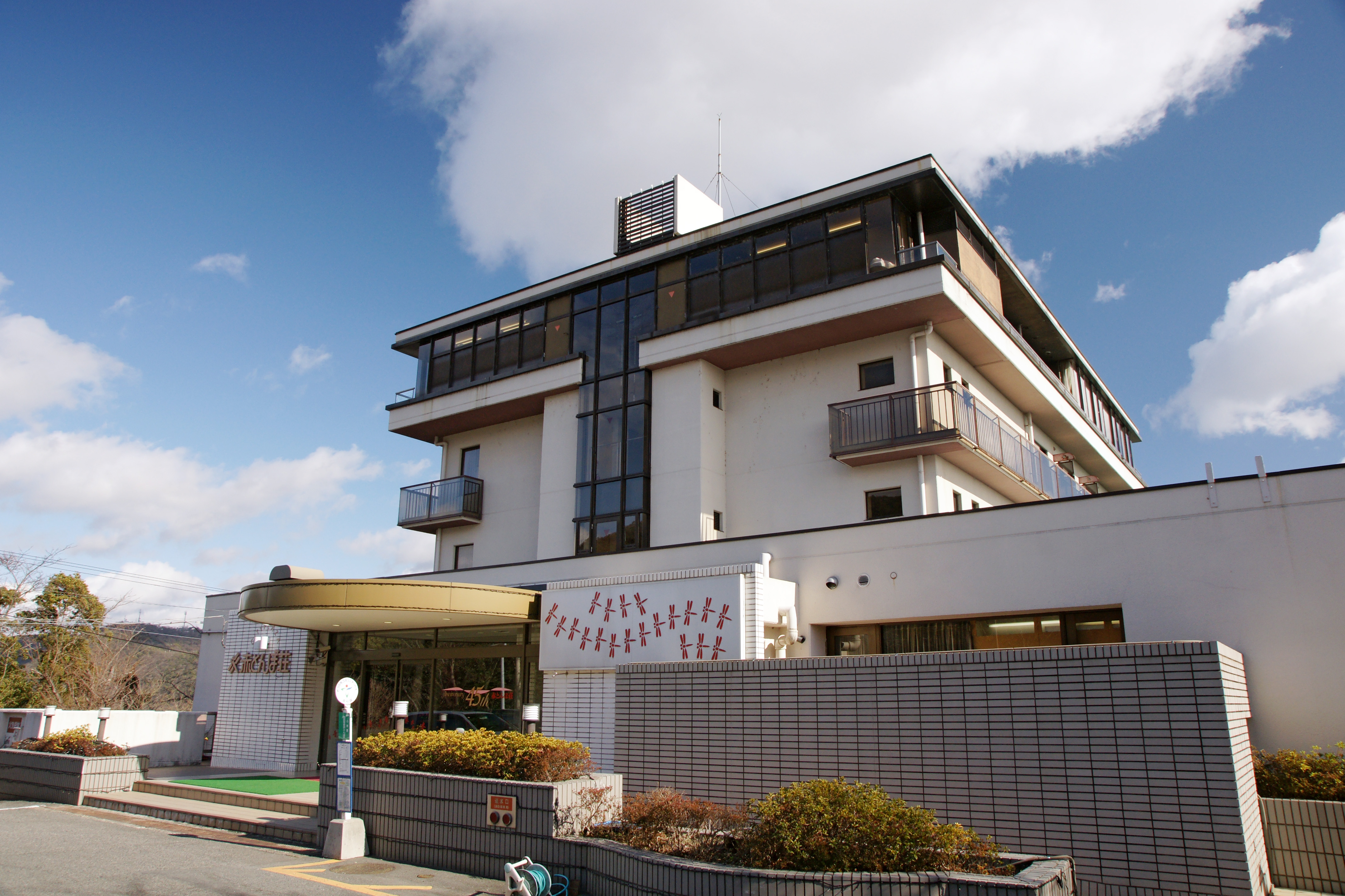 Aka-tombow-so in Tatsuno, Hyogo prefecture, Japan